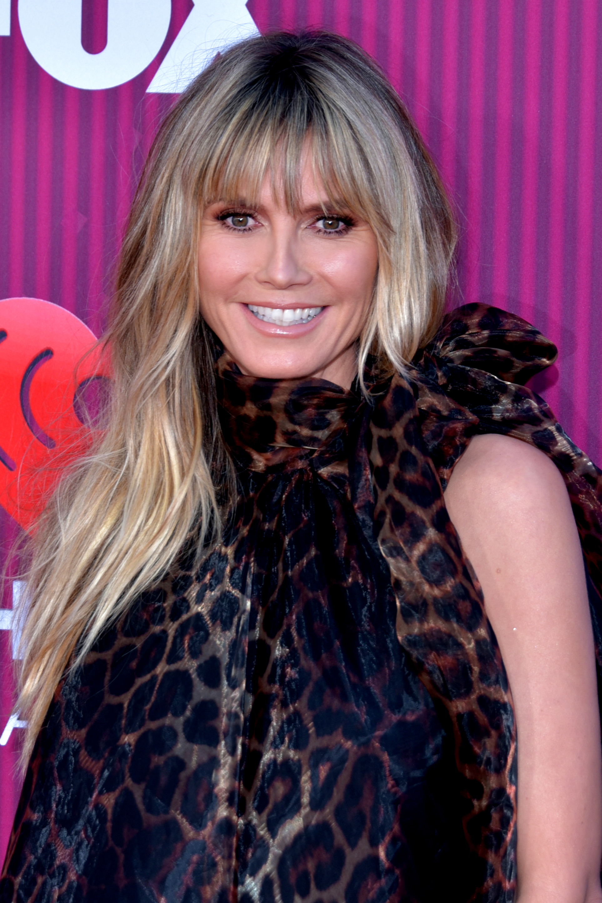 Heidi Klum at the 2019 iHeart Radio Music Awards in Los Angeles, California